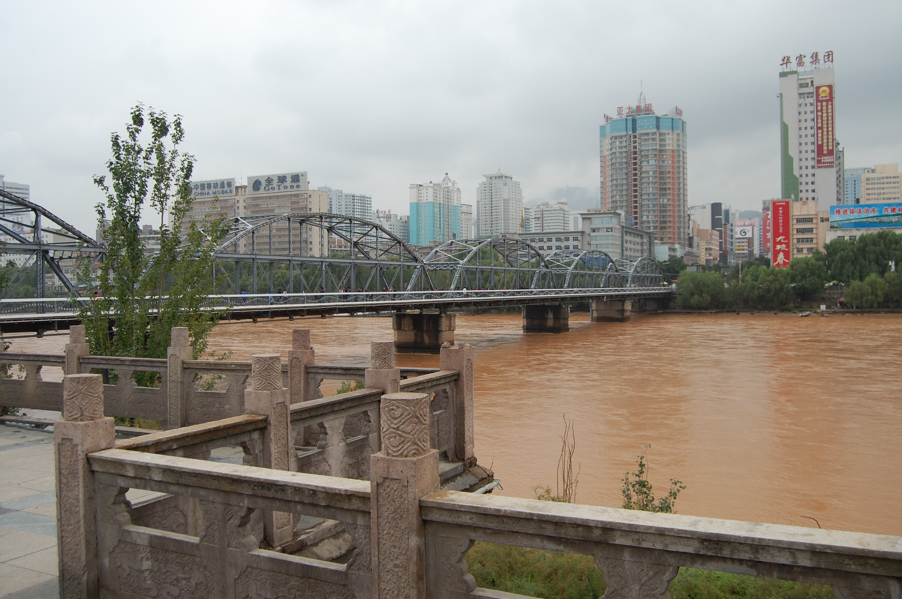 Zhongshan-Bridge in Lanzhou, Gansu Province, China